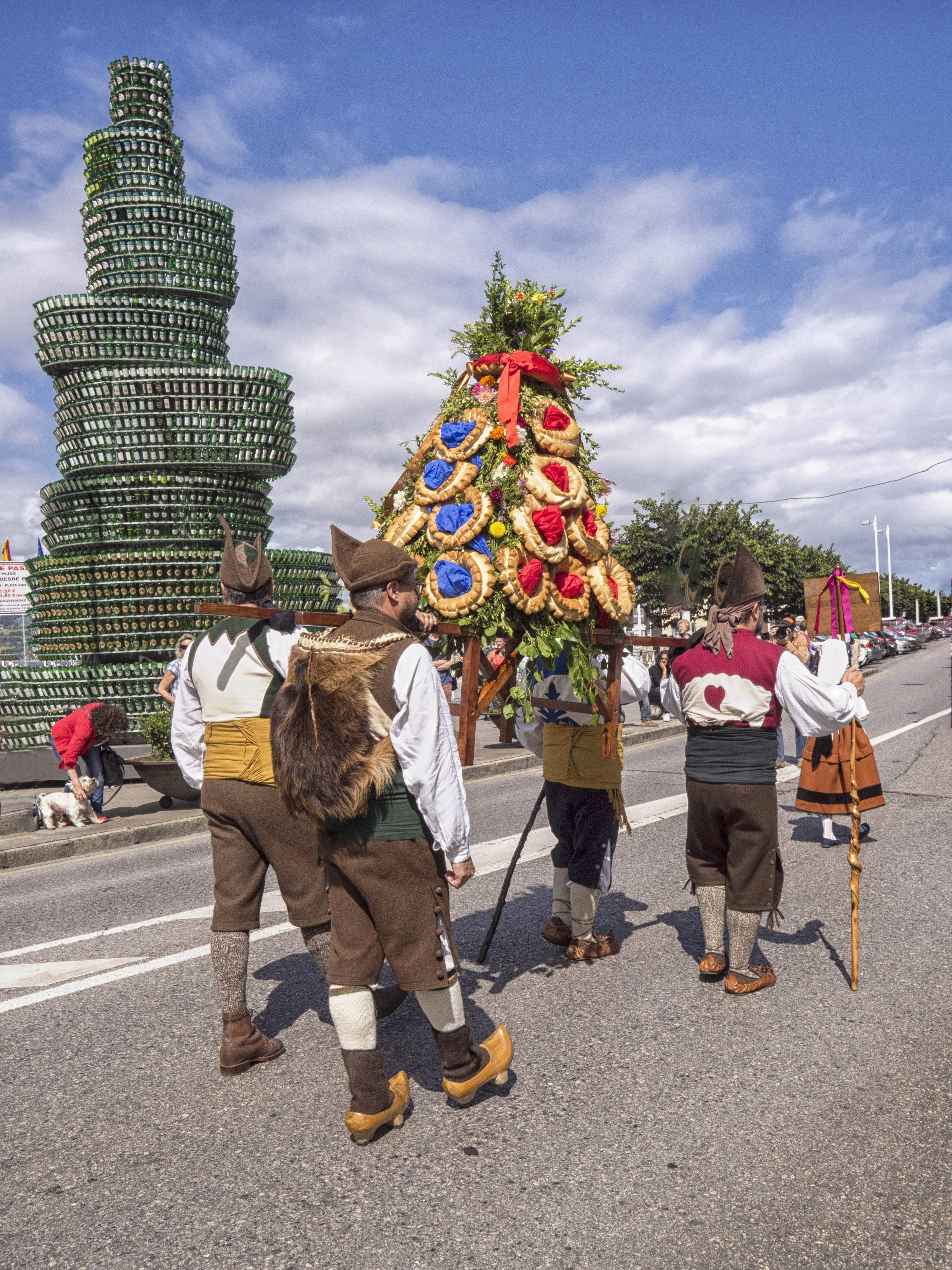 El " ramu" es una piramide formada por panes de formas y sabores diferentes y engalanada con cintas de colores . This is a photography of a Folklore festival in Spain (Wikidata id Q8771143).